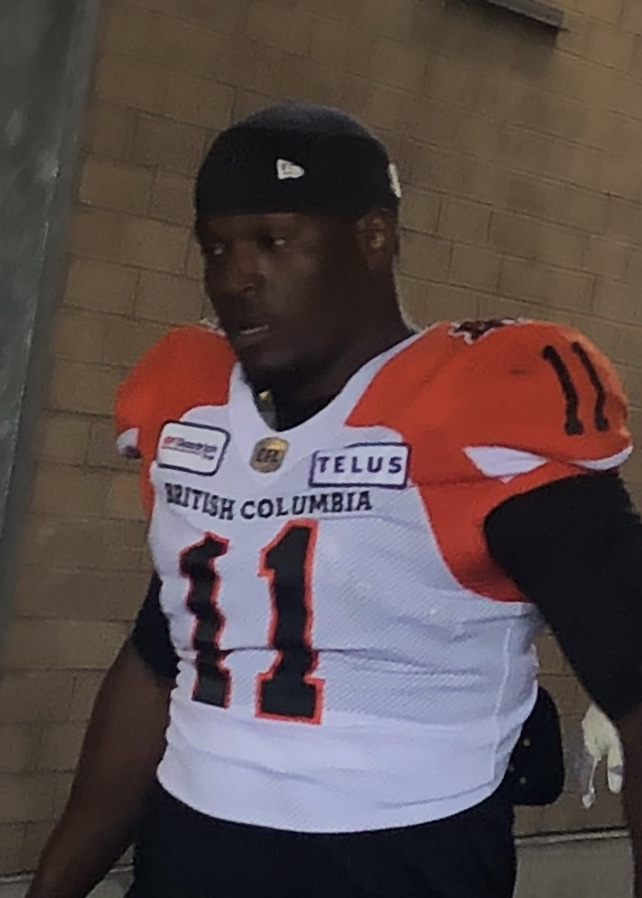 Odell Willis, defensive lineman for the BC Lions.